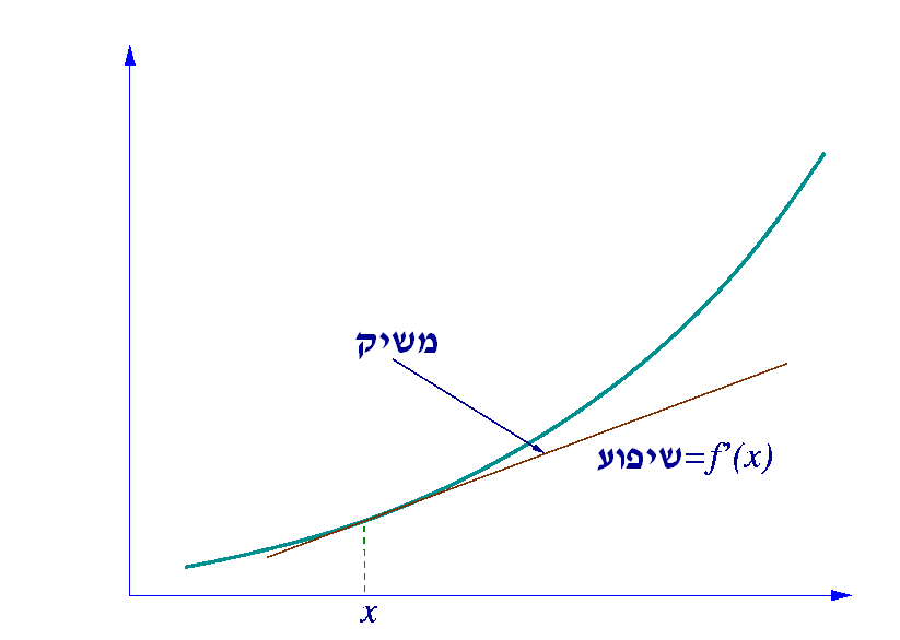 Translated from Tangent-calculus.png by אביעד at he.wikipedia.